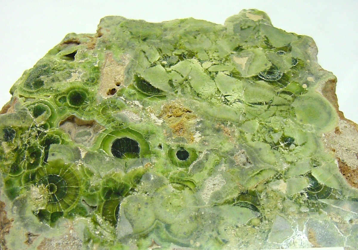 Wavellite. Collected by John Rice from Montgomery County, Arkansas. Mineral collection of Brigham Young University Department of Geology, Provo, Utah. BYU index 9-3038b